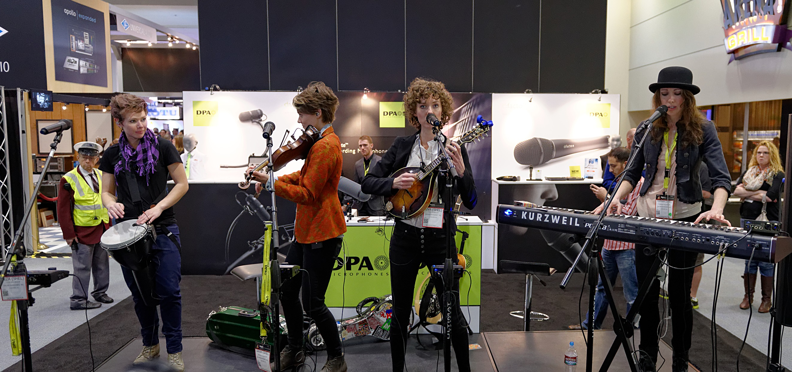 SHEL at the Winter NAMM Show 2015